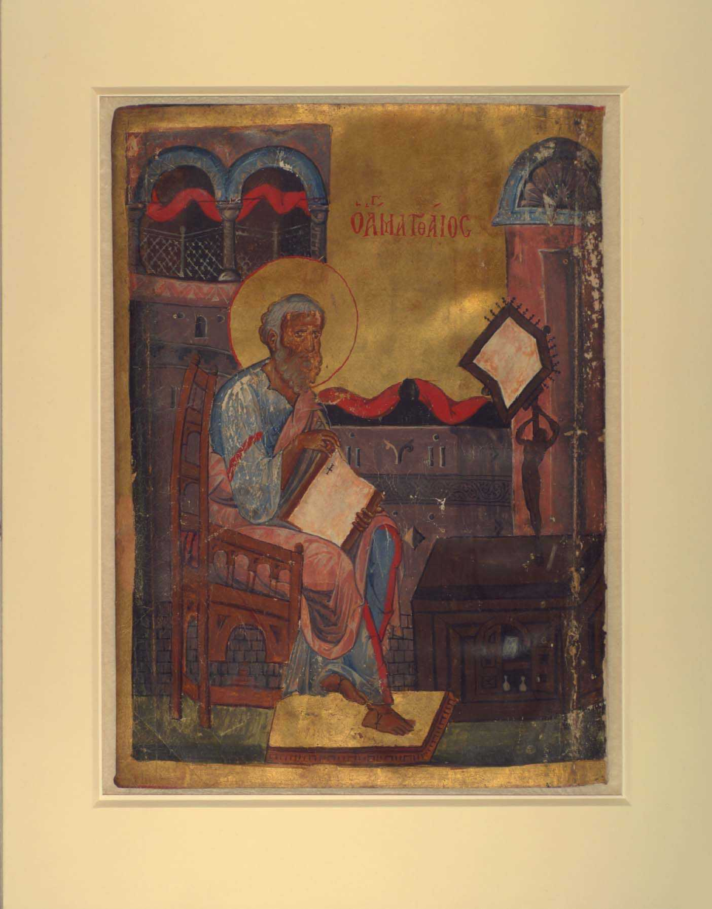 Add MS 5111, f. 12r. Portrait of St Matthew the Evangelist. Note: Folio 12 recto of a Gospel Book. A 12th century miniature of St. Matthew pasted into an earlier Gospel book.